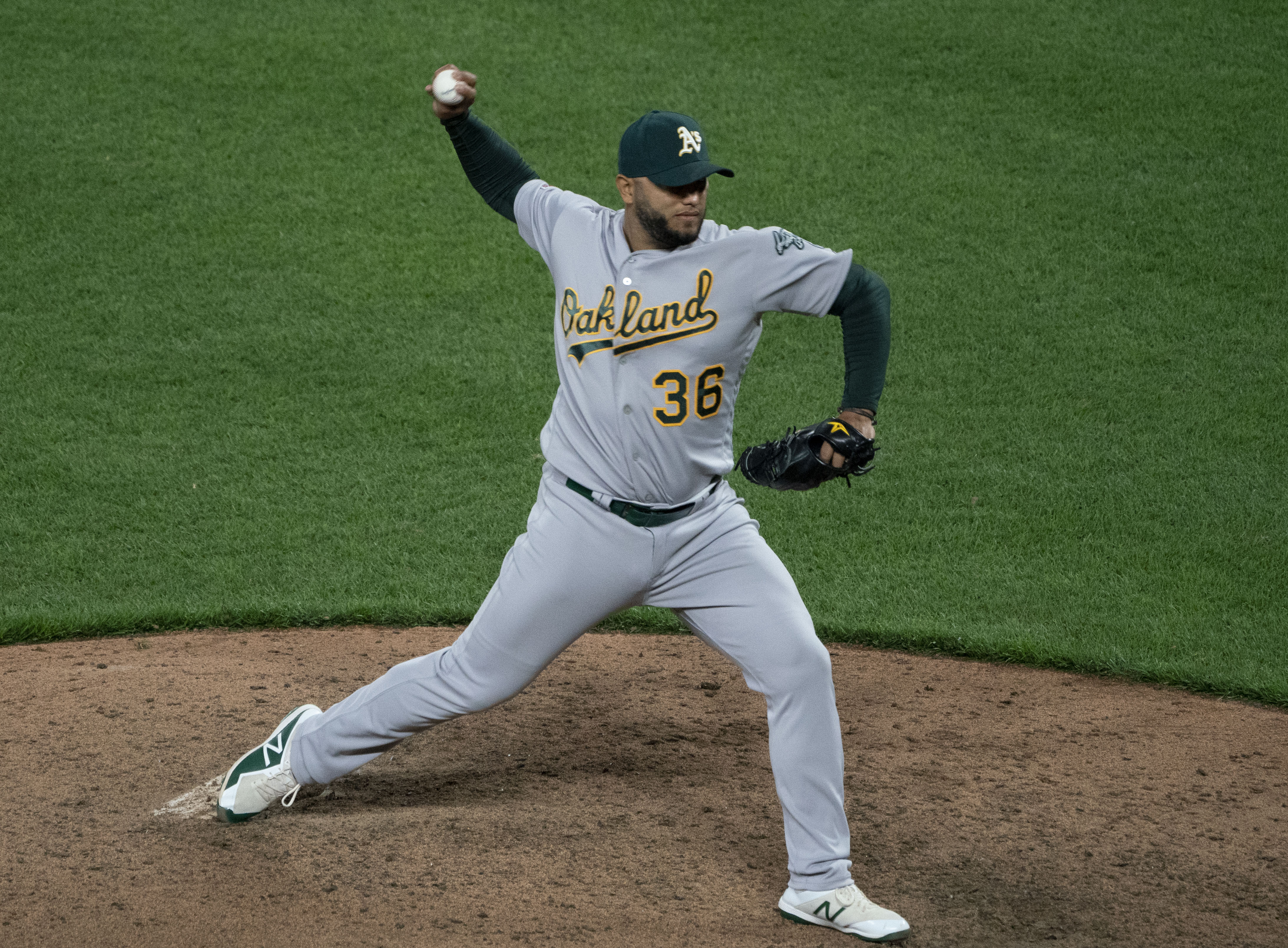 Athletics at Orioles 4/10/19